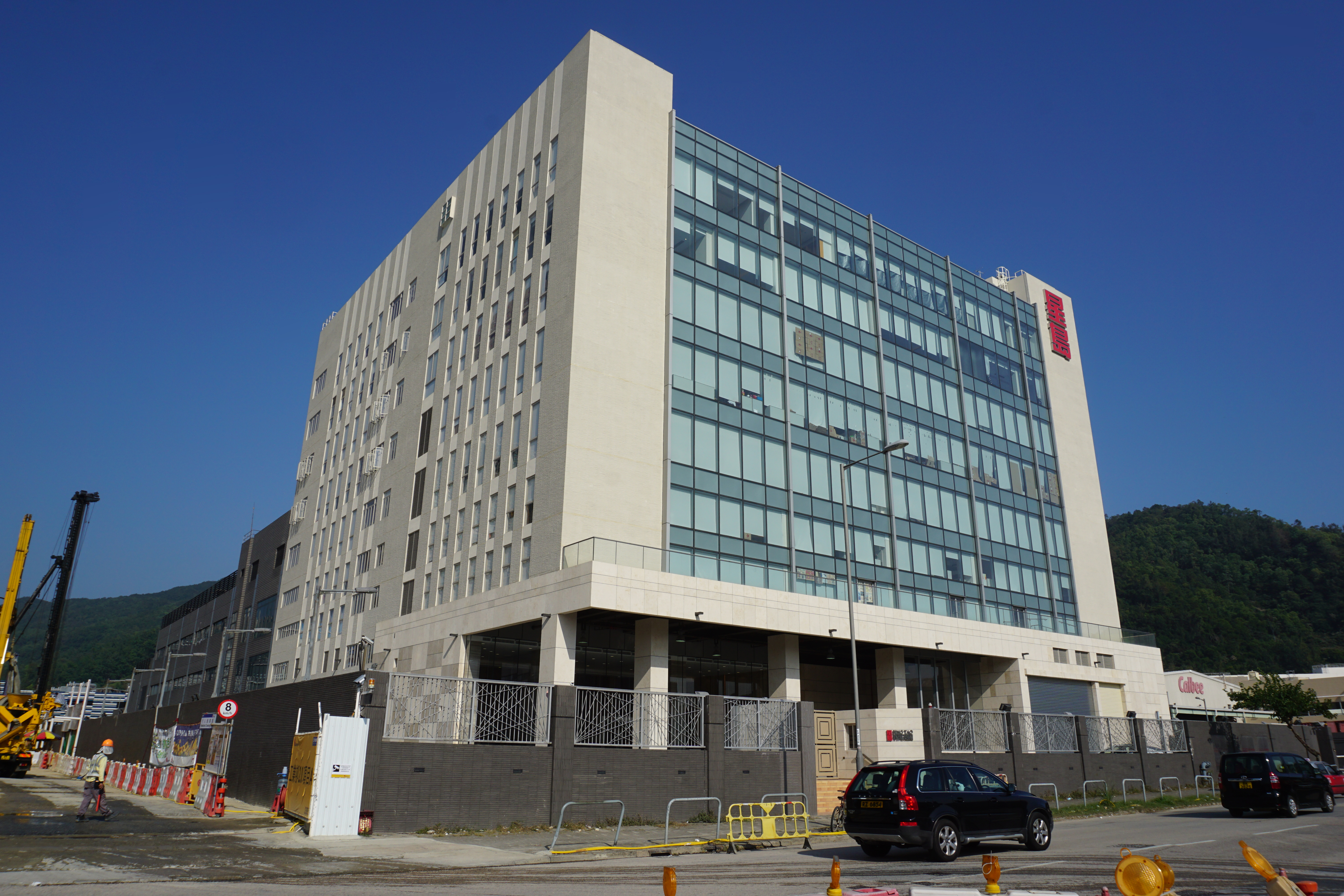 Sing Tao News Corporation Building in Tseung Kwan O Industrial Estate, The New Territories, Hong Kong.